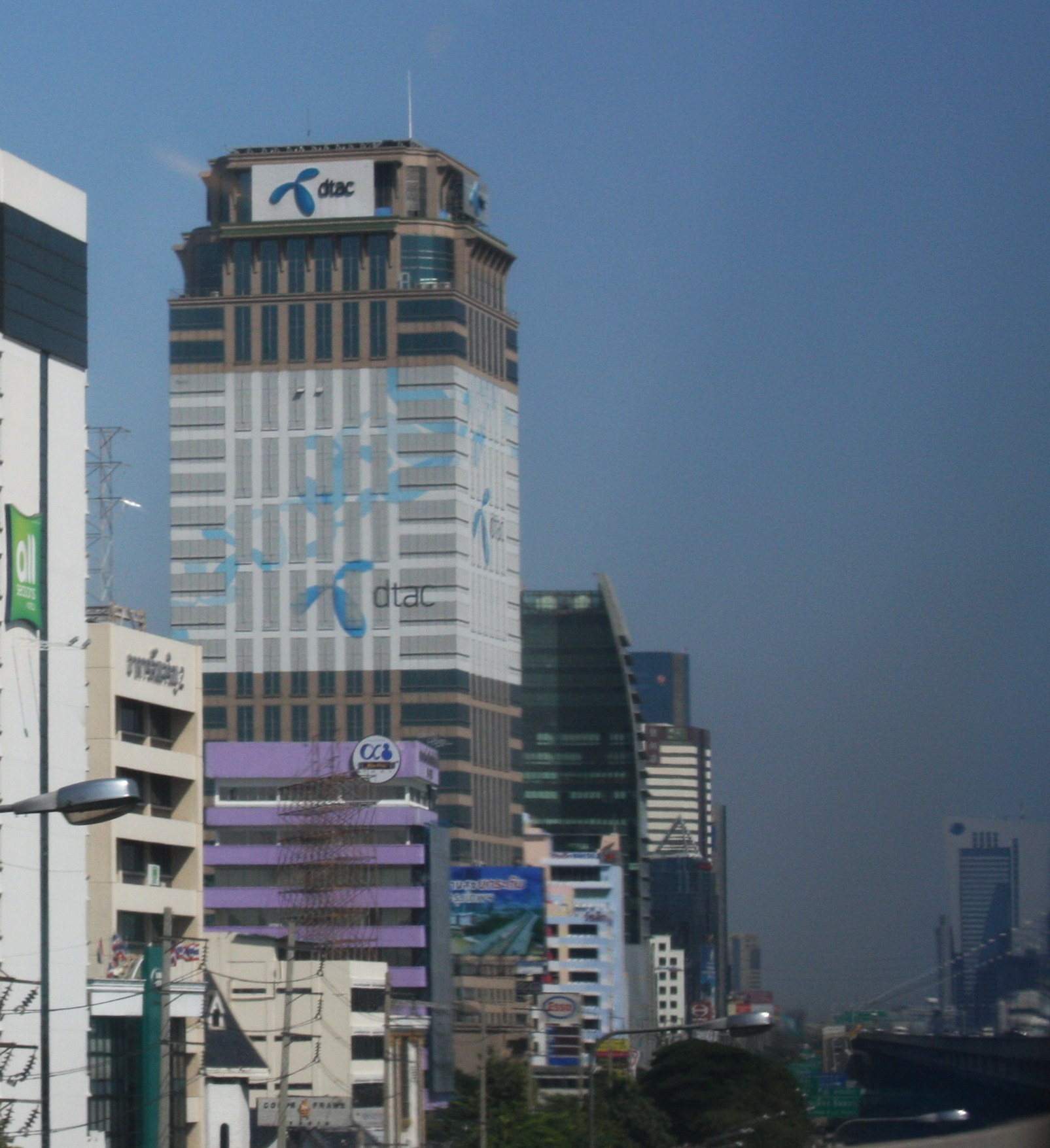 DTAC hq in Bangkok, Thailand